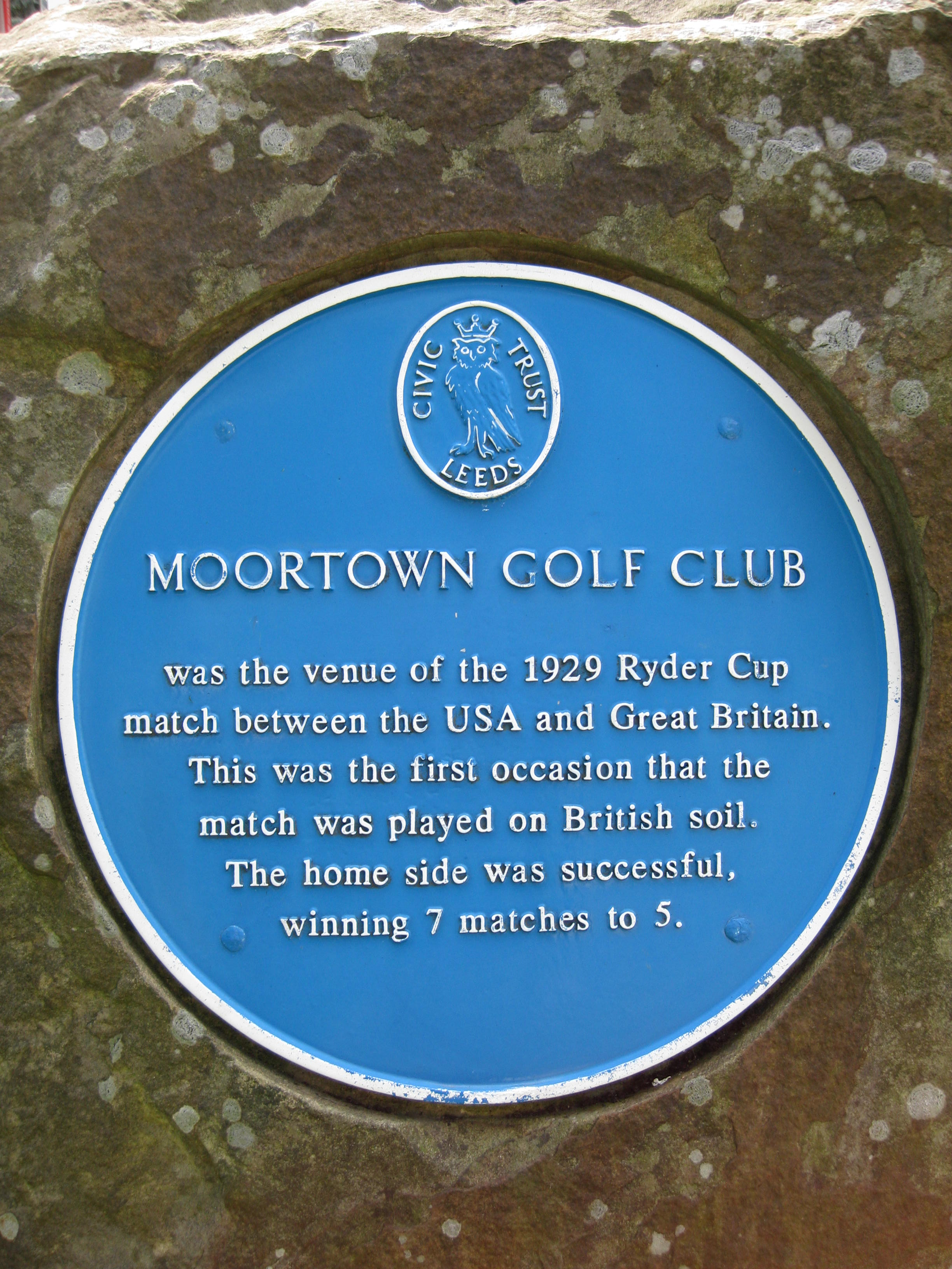 Leeds Civic Trust blue plaque: Moortown Golf Club, Harrogate Road, Leeds